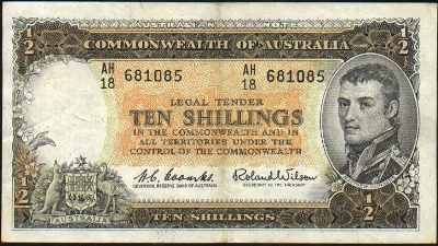 An Australian ten-shilling note